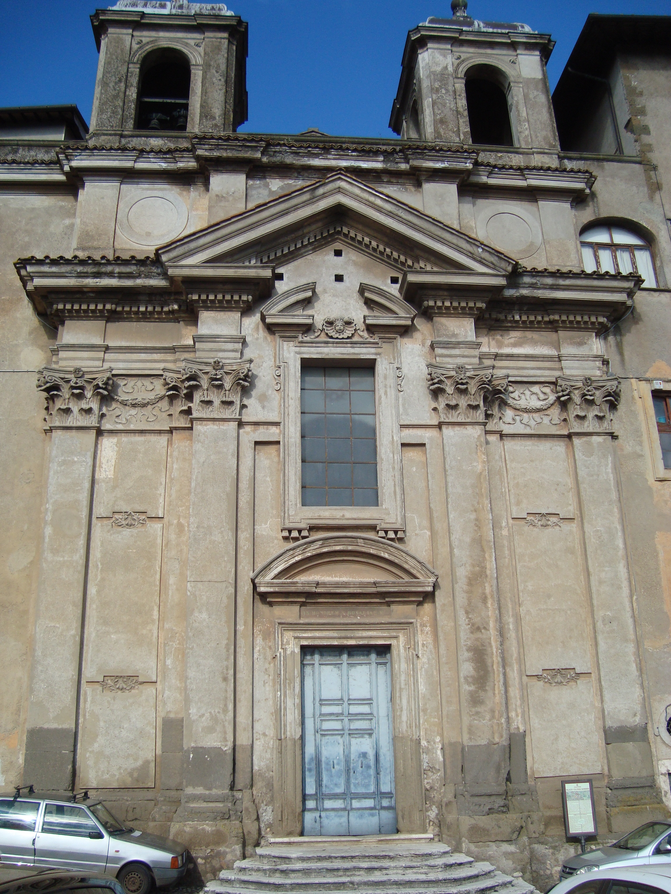 Church Santa Rosalia in Palestrina, which is part of the Palazzo Barberini